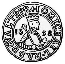 Coin of Mihnea III Radu (Prince of Wallachia 1658-1659).